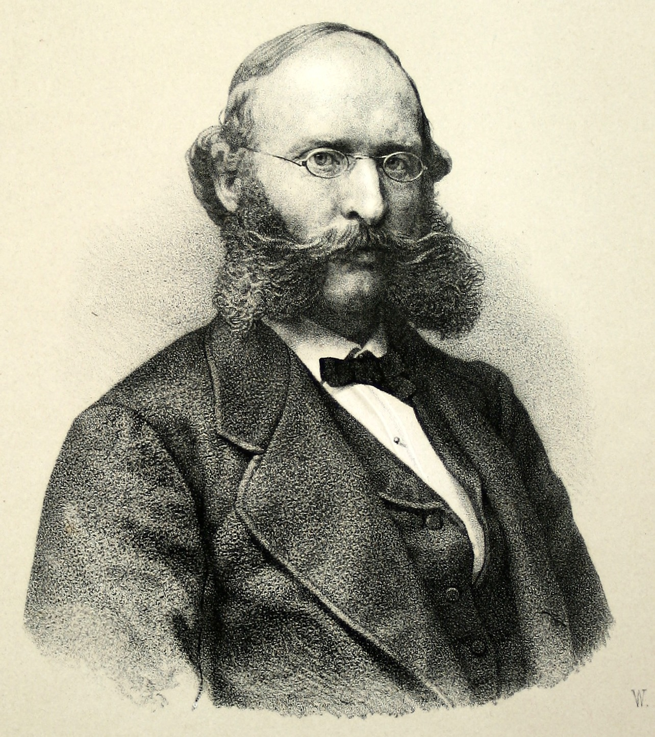 Portrait of James Keiller from the book "Svenska industriens män" (1875)